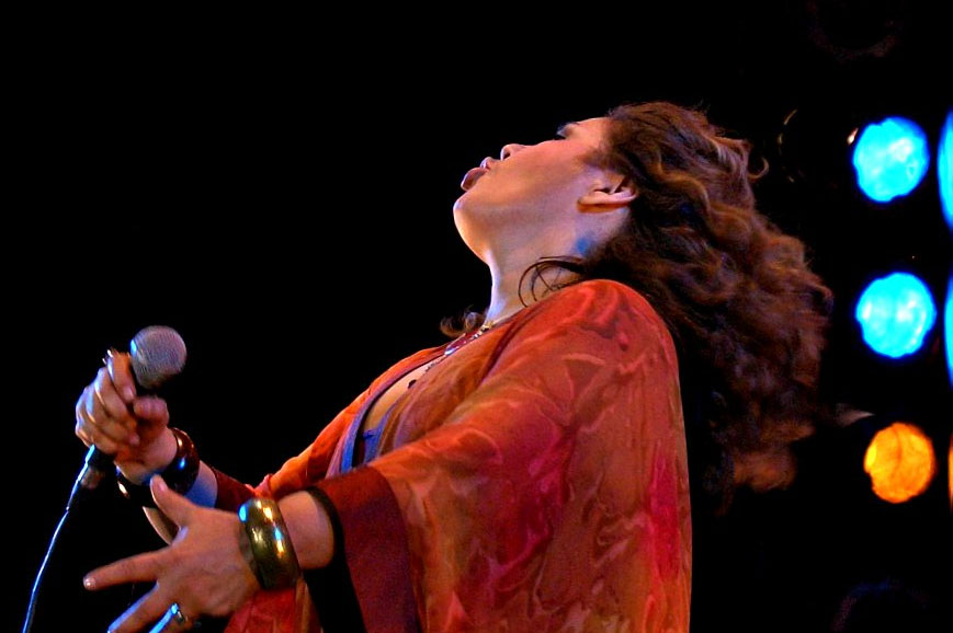 Tania Libertad in concert in 2004.